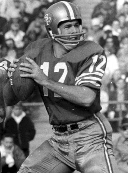 John Brodie playing for the San Francisco 49ers players in 1966